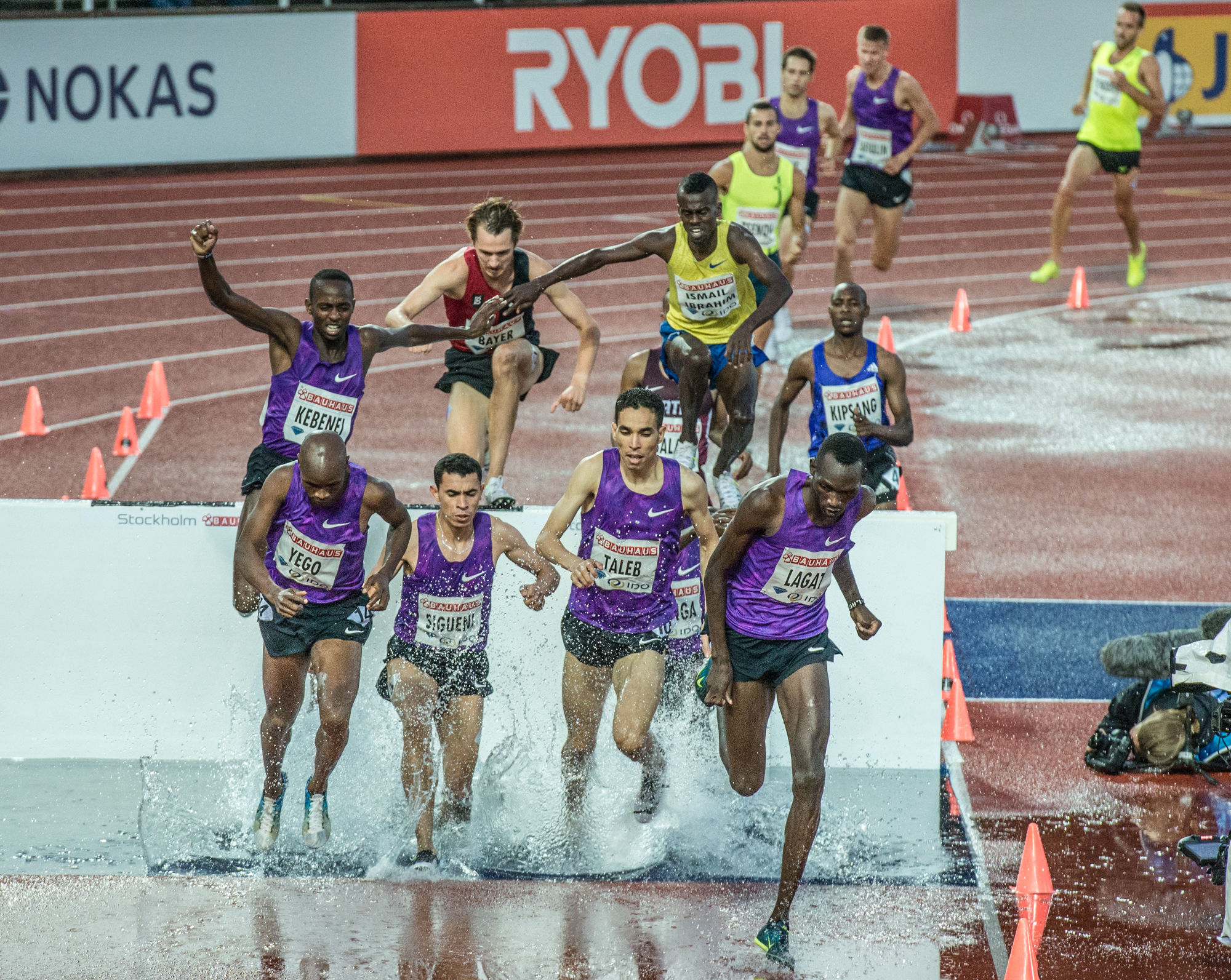 Diamond League (Bauhaus-galan) at the Stockholm Stadium on July 30, 2015.